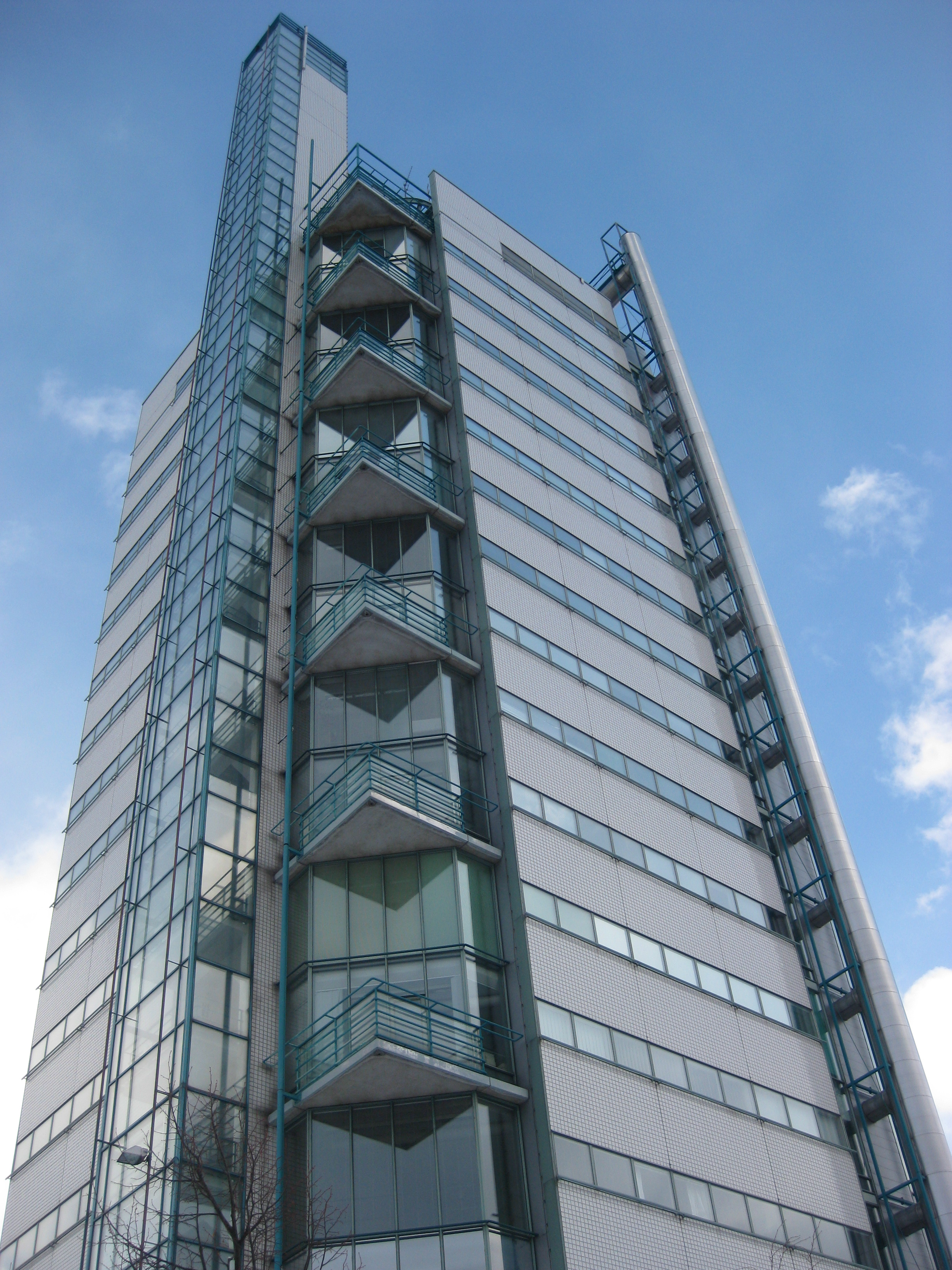 Itäkeskus Maamerkki tower from below, Helsinki